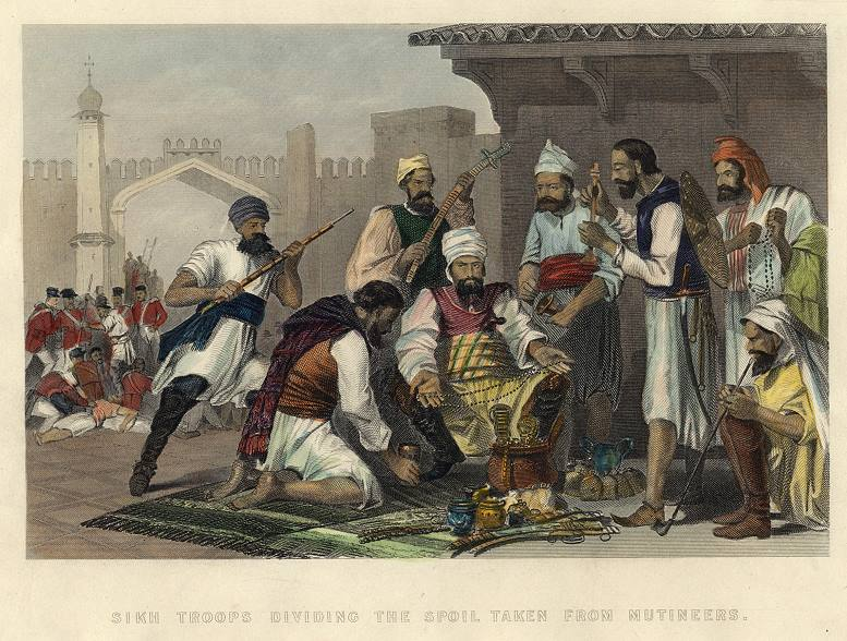 "Sikh Troops Dividing the Spoil Taken from Mutineers," from 'History of the Indian Mutiny', c.1860; with modern hand coloring